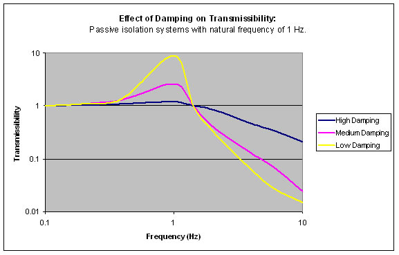 Damping transmissibility curve